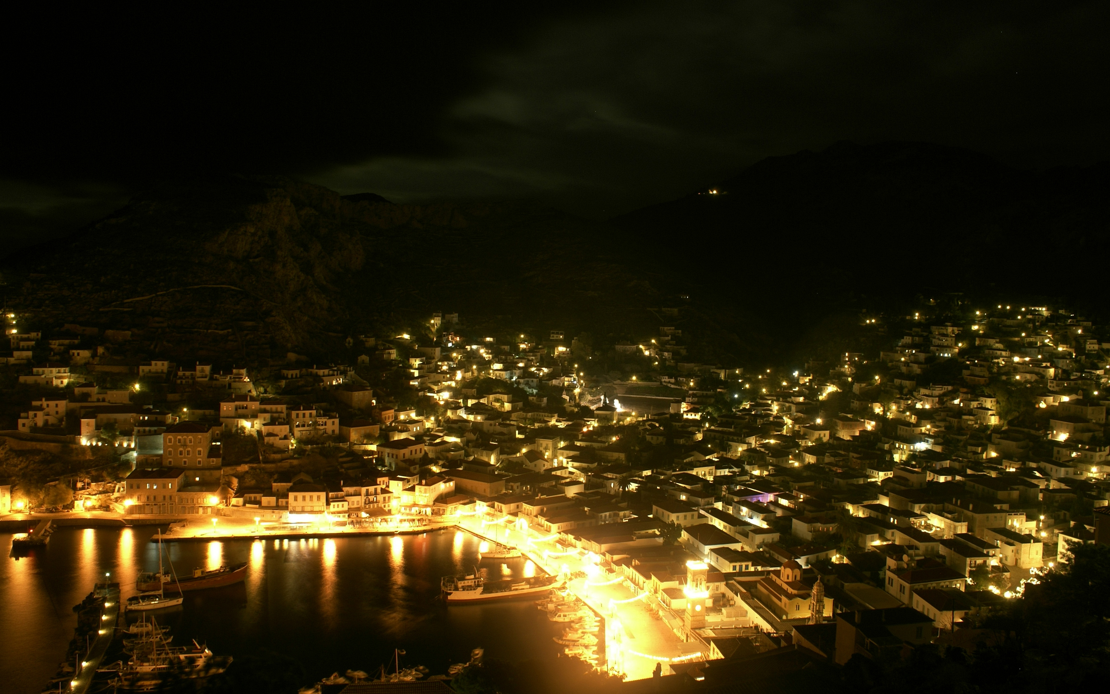 Hydra Harbour at new year's eve 2012/13